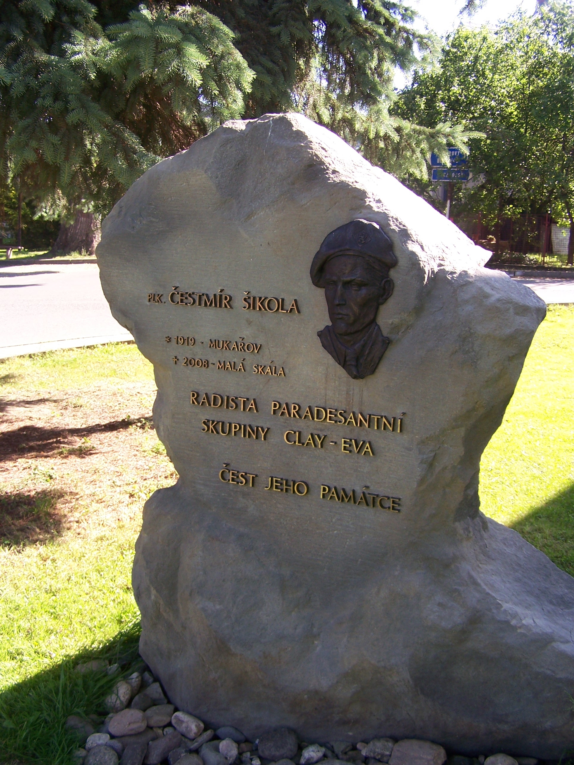 Pomník Čestmíra Šikoly v Malé Skále